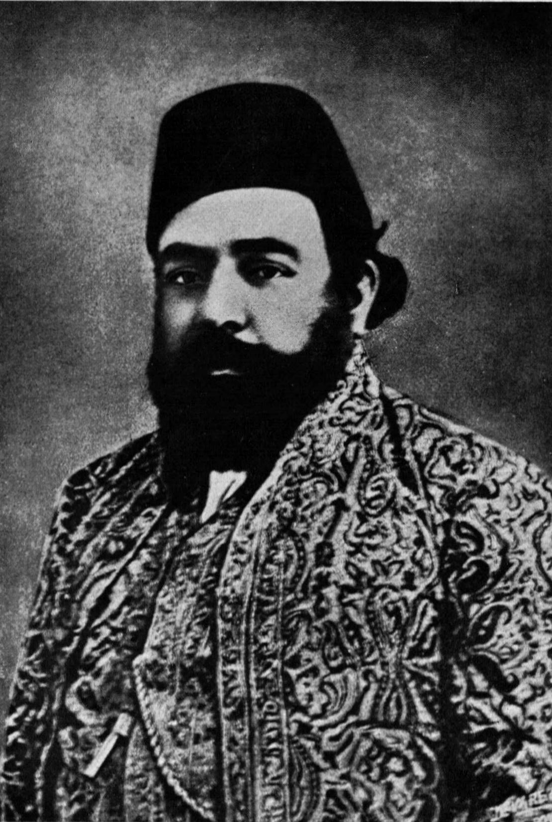 Aga Khan II